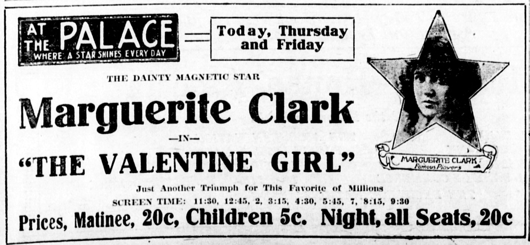 The Valentine Girl was a 1917 American silent romantic drama film directed by J. Searle Dawley and distributed by Paramount Pictures. This is from a newspaper advertisement.